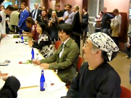 One cropped frame of a video taken during the autograph session in the Kölner Philharmonie before the Symphonic Fantasies concert, depicting (from left to right) Hiroki Kikuta, Yoko Shimomura, Yasunori Mitsuda and Nobuo Uematsu.